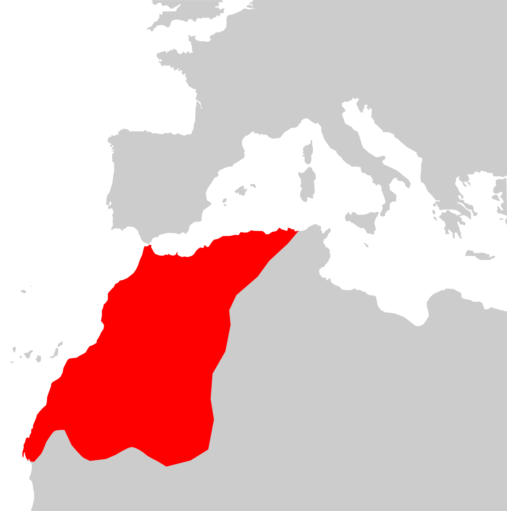 Agama impalearis distribution map.